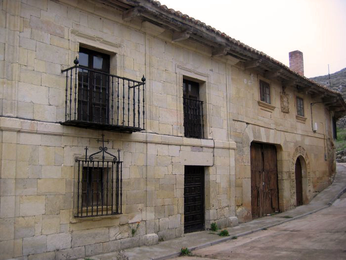 Manor house in Barrio de Santa María, Becerril de Carpio (Palencia, Castile and León).